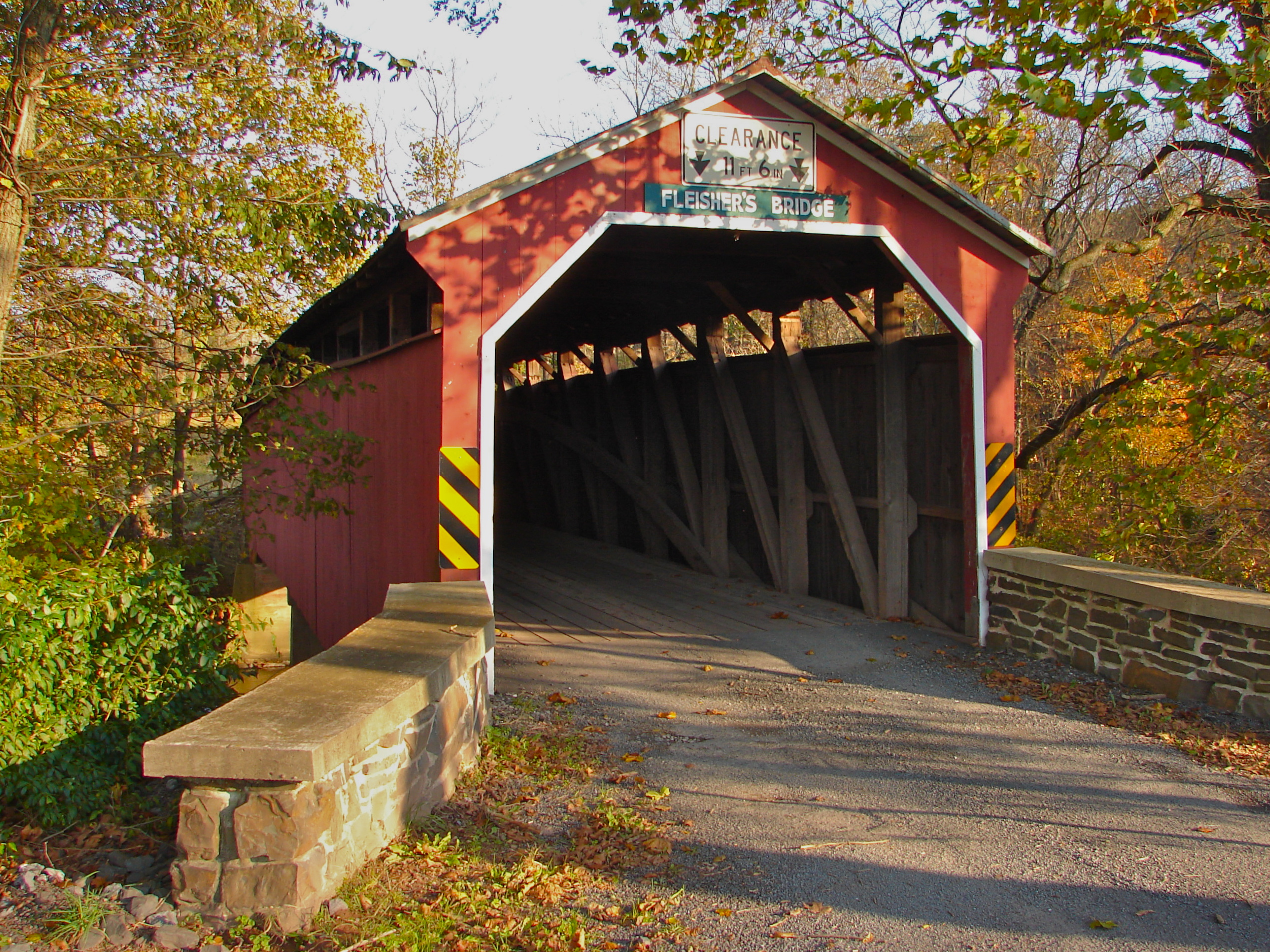 Fleisher Covered Bridge on the NRHP since August 25, 1980. Northwest of Newport on Township 477, Oliver Township, Perry County, Pennsylvania. Covered Bridge number 38-50-17. Built 1887, 113 ft. in length. Burr arch.